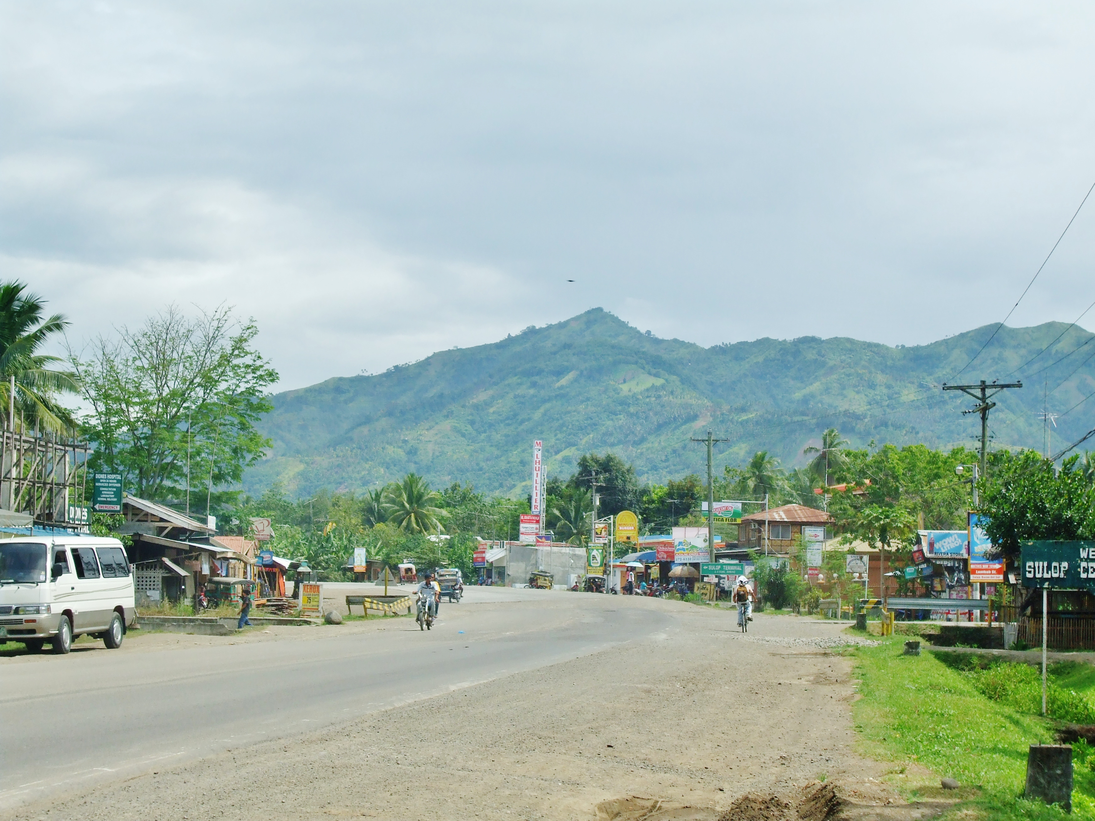 Welcome to the Municipality of Sulop